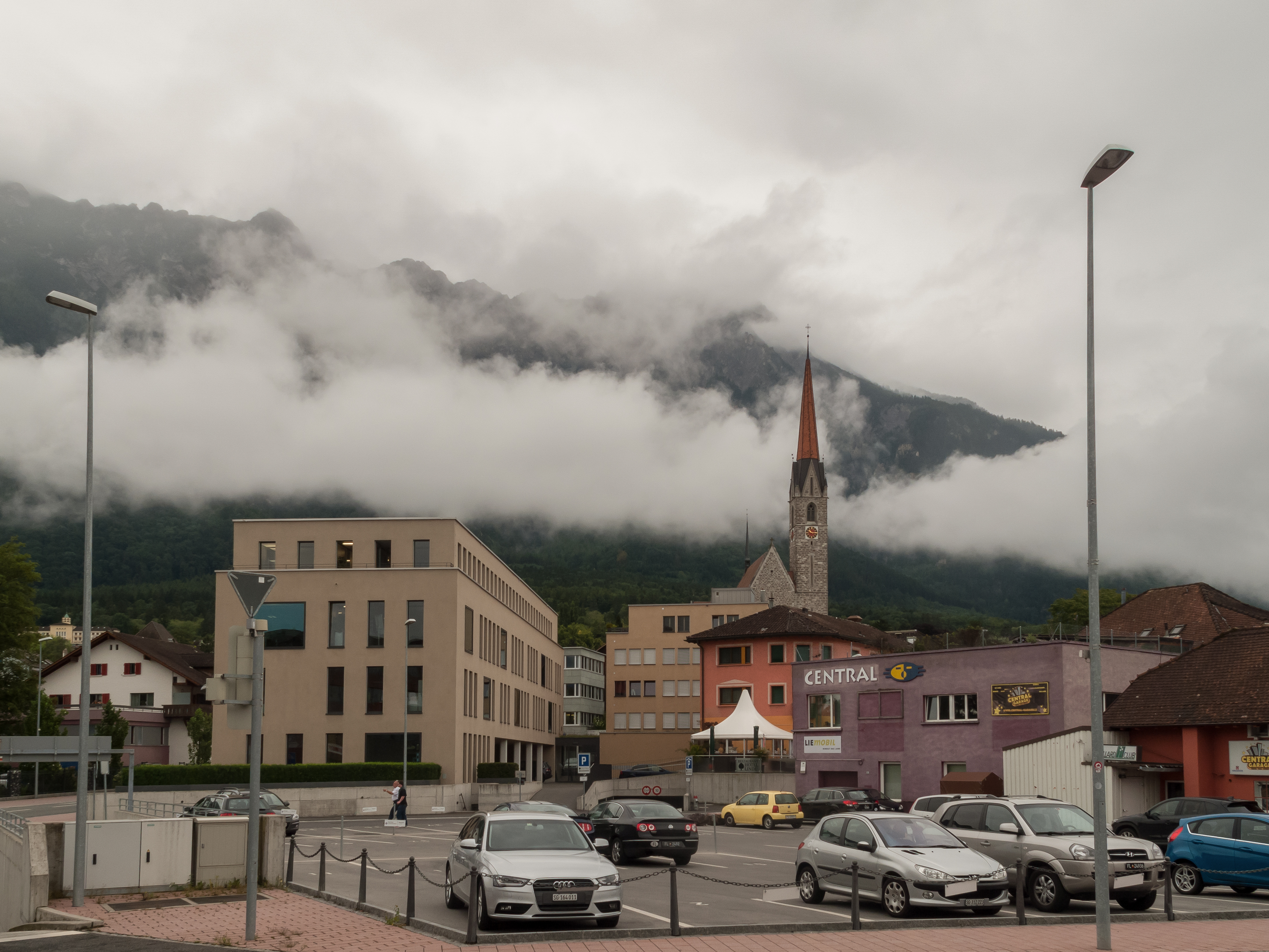 Schaan, church (die Pfarrkirche Sankt Laurentius) in the street